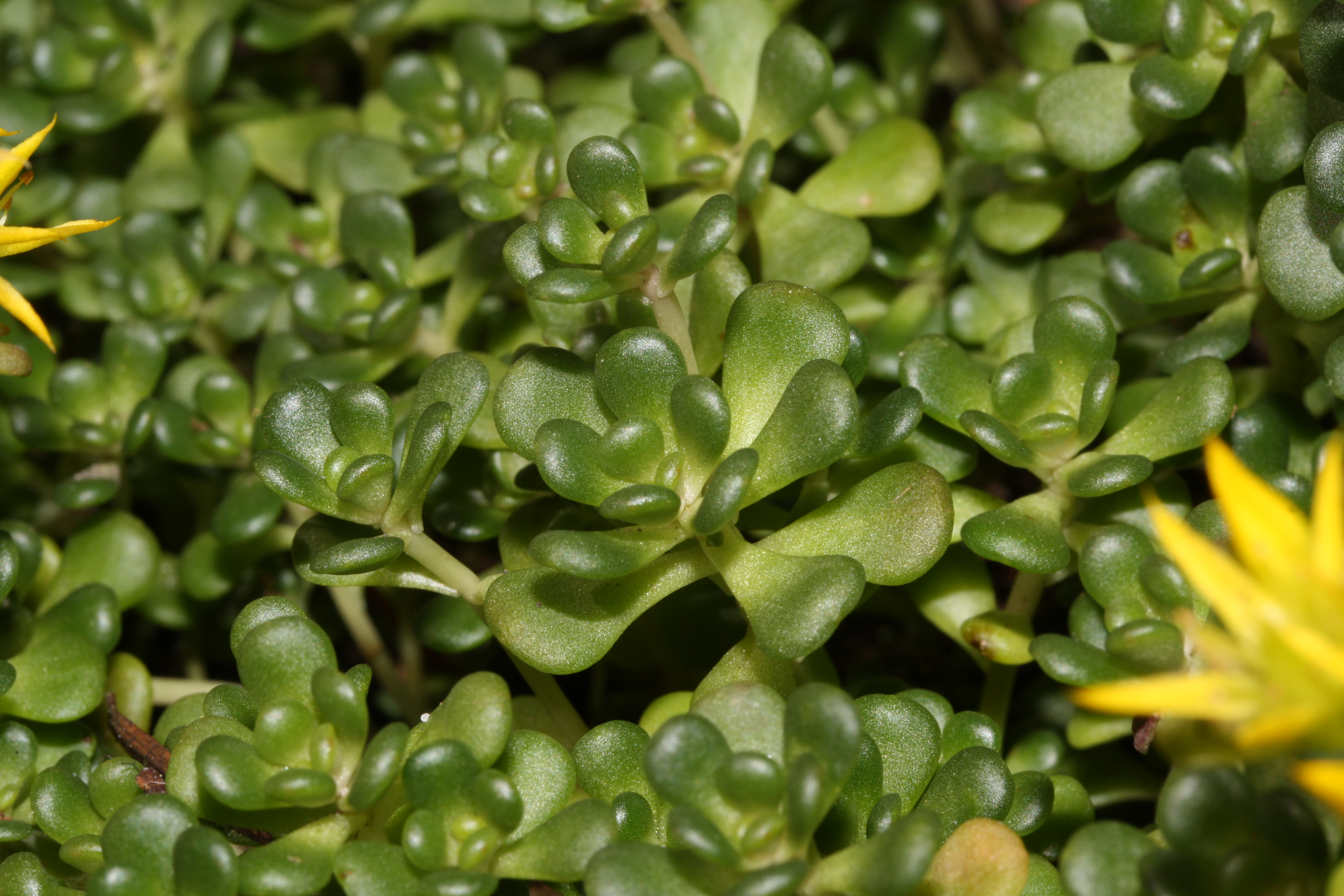 Oregon Stonecrop